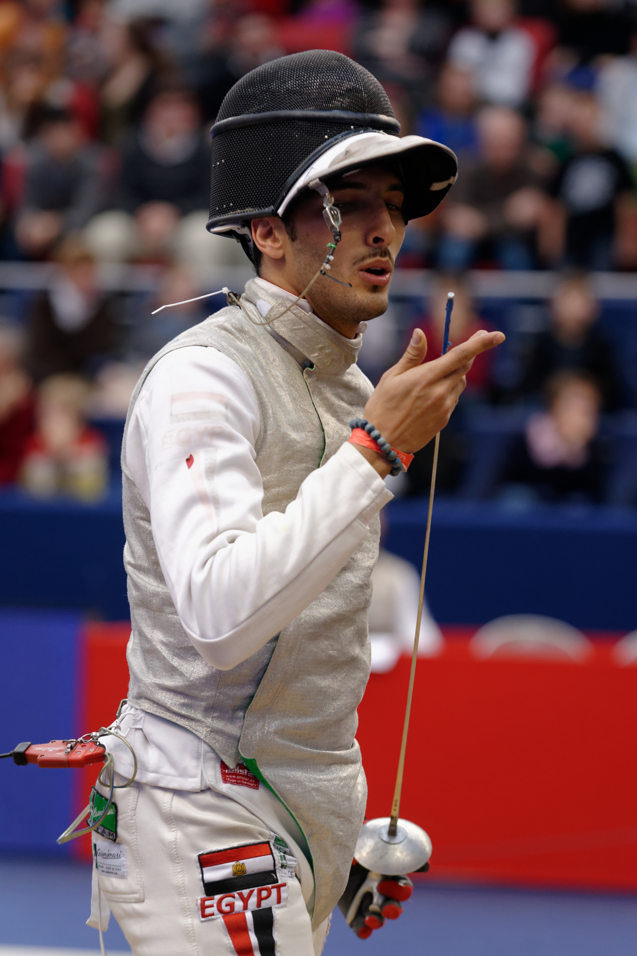 Alaaeldin_Abouelkassem of Egypt during the team event of the Challenge International de Paris (men's foil World Cup).